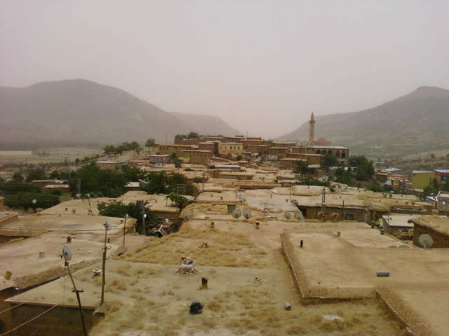 Hazro is a town of Diyarbakir, Turkey.